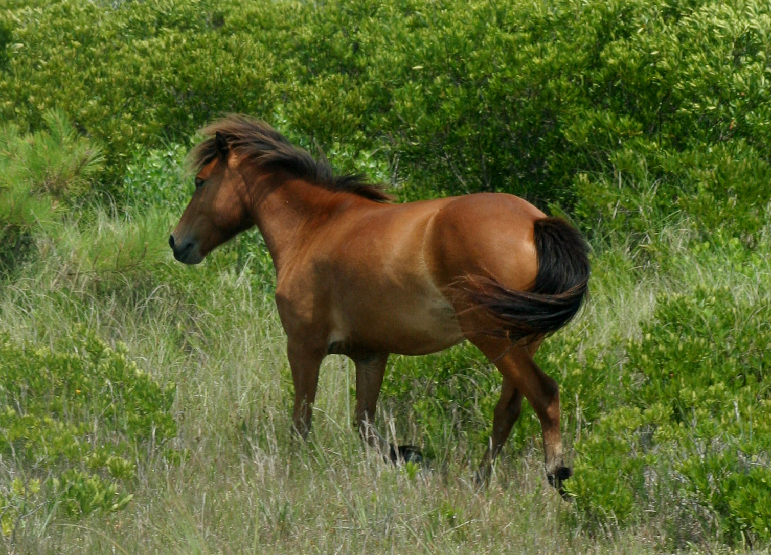 Wild Pony at Assateague Island National Seashore, MD